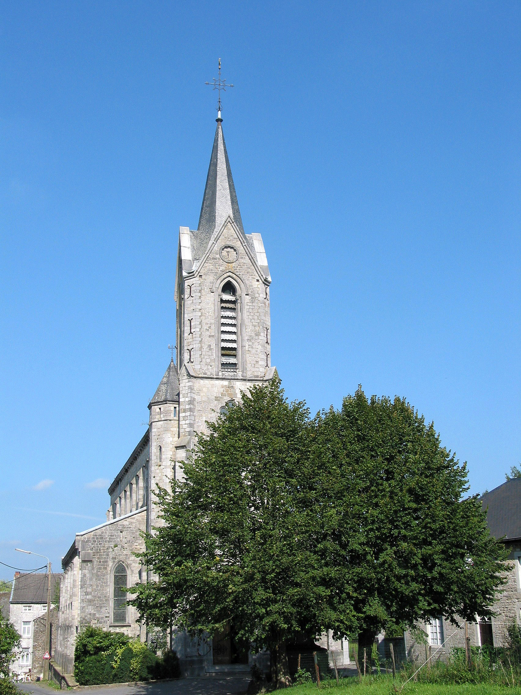 Ferrières (Belgium), the St. Martin's church (1878).